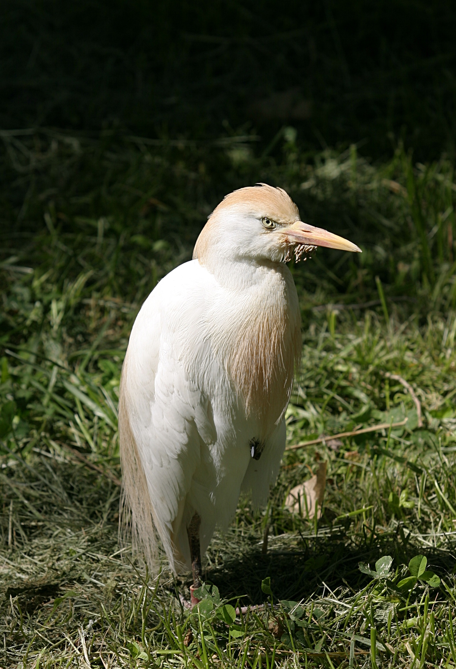 A Cattle Egret at the Rio Grande Zoo in Albuquerque, New Mexico, USA.